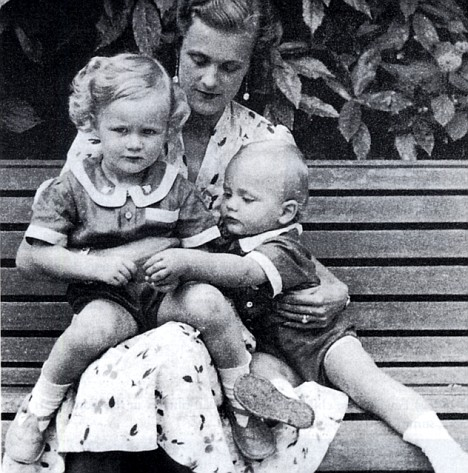 Fey Von Hassell with her children Corrado (left) and Roberto at Brazza in 1943